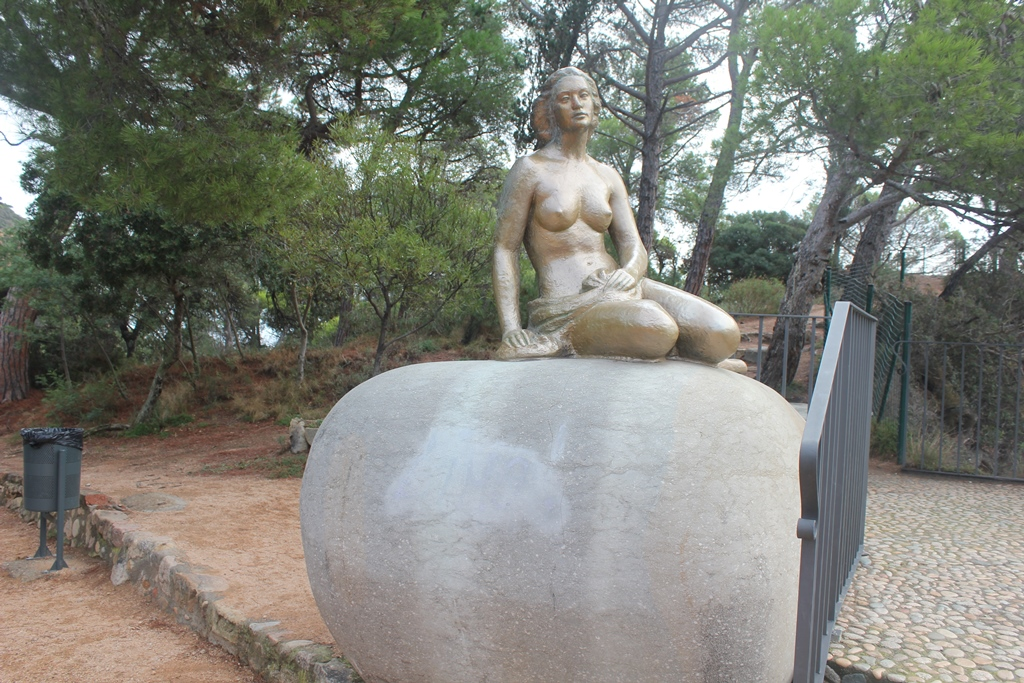 Ava Gardner statute at Canyet de Mar